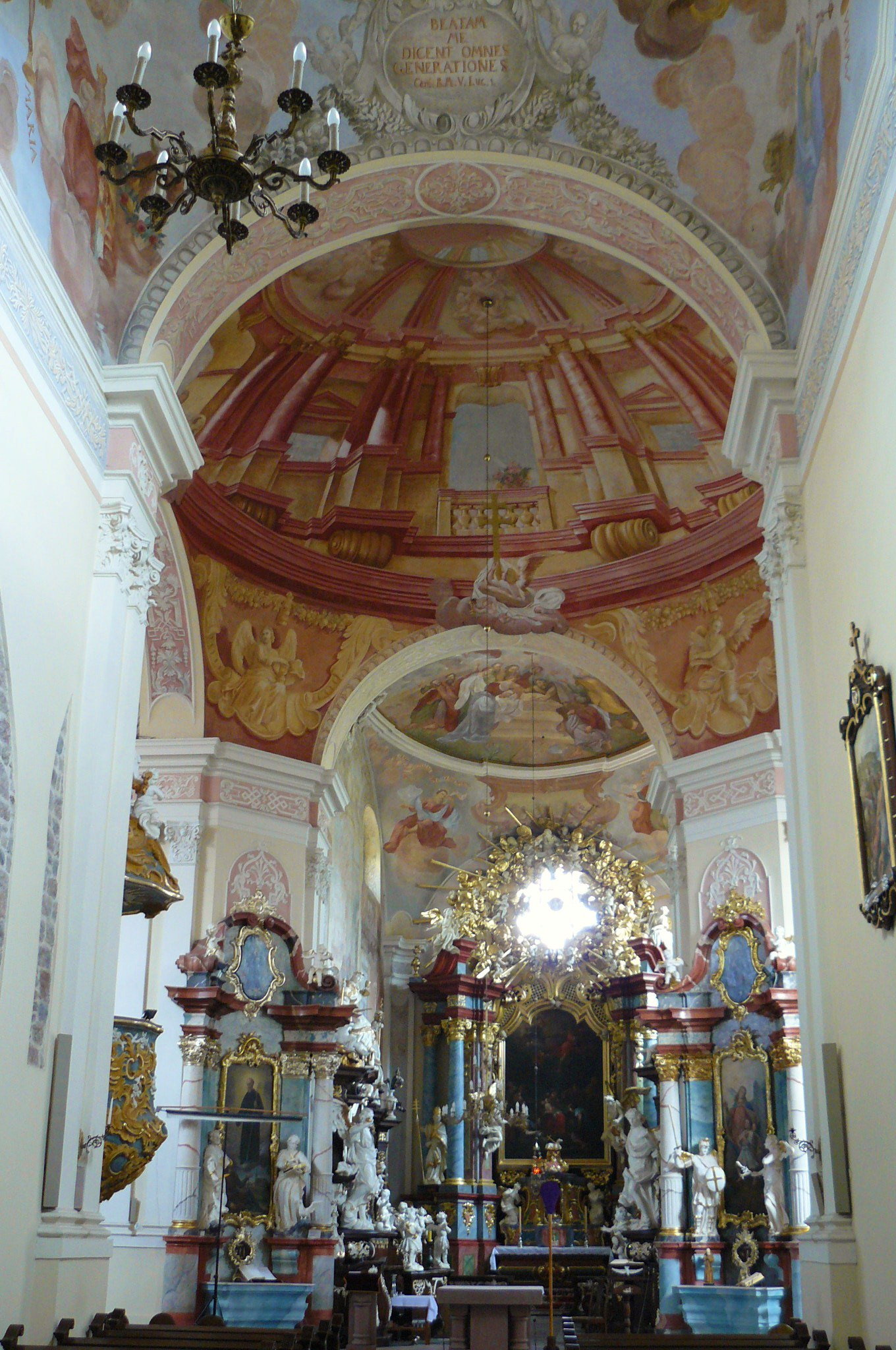 Lubin (Koscian) - interior of Churche.